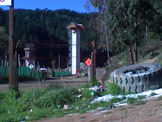 frist